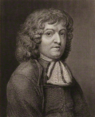 Samuel Cooper (1609-1672)